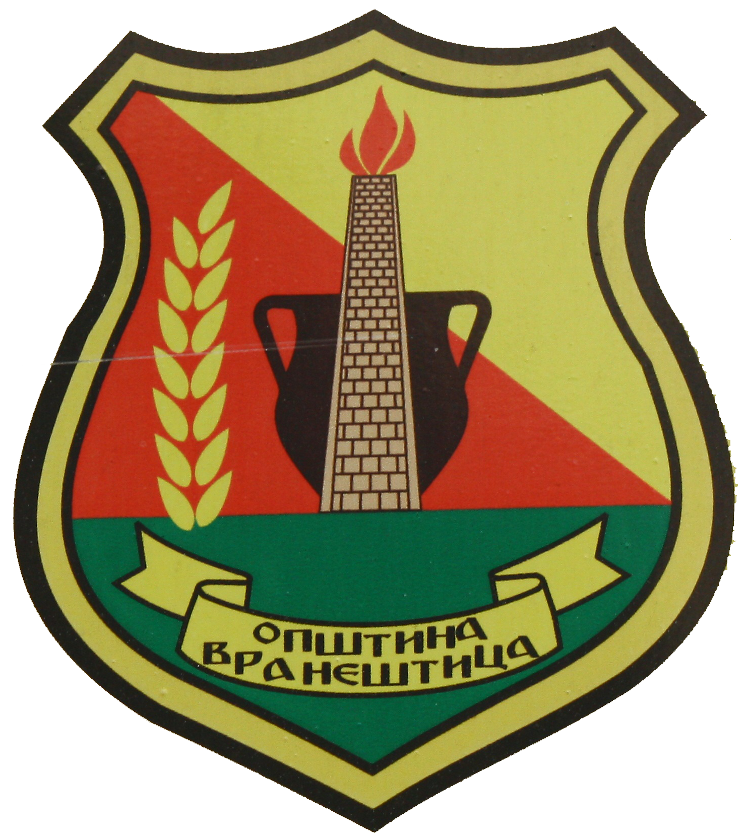 Coat of arms of Vraneštica Municipality, Macedonia.